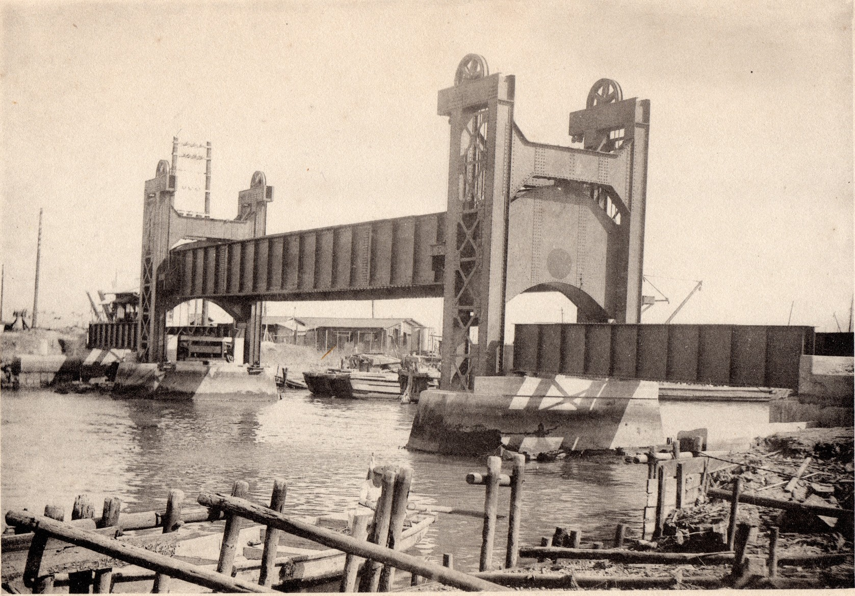 The lift bridge on Tempouzan canal, port of Osaka, Japan. Osaka port railway used the bridge.